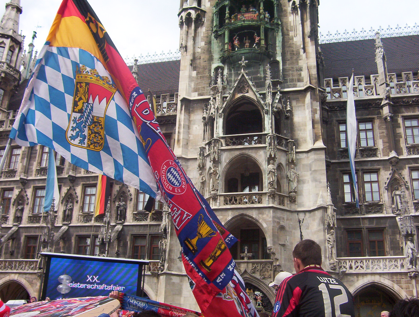 Celebration of Bayern Munich's championship